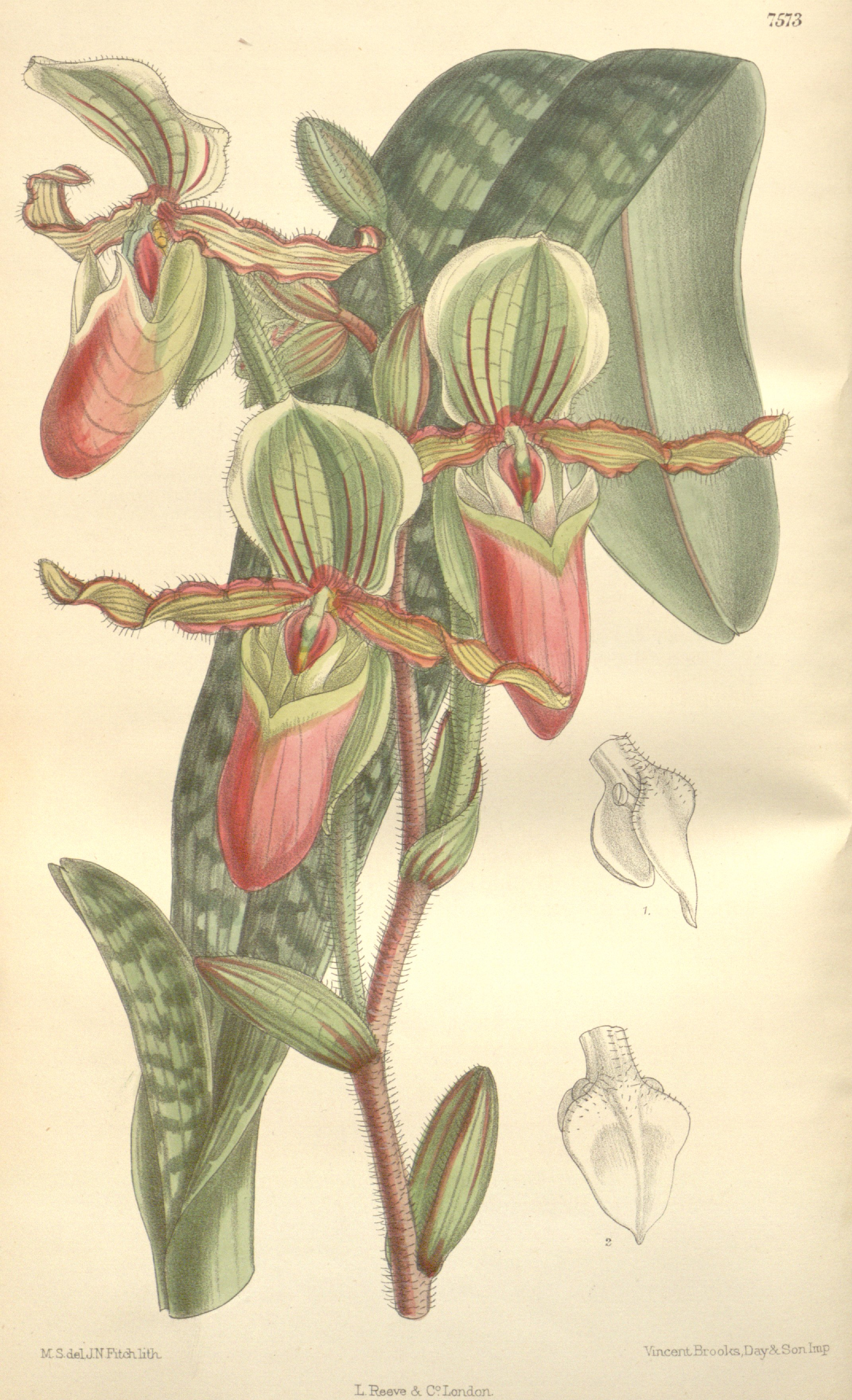 Illustration of Paphiopedilum victoria-mariae